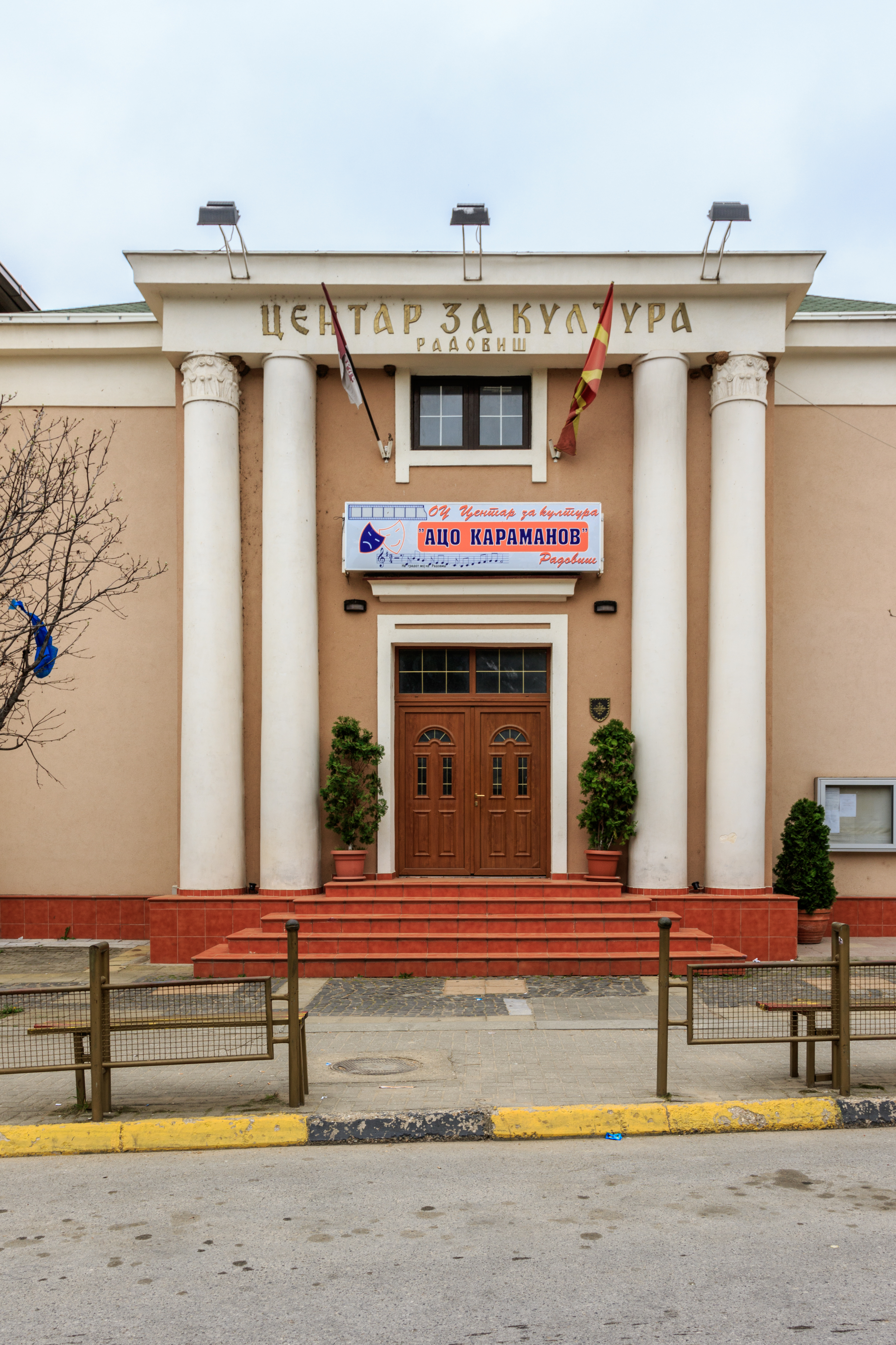 Cultural centre "Aco Karamanov" in Radoviš